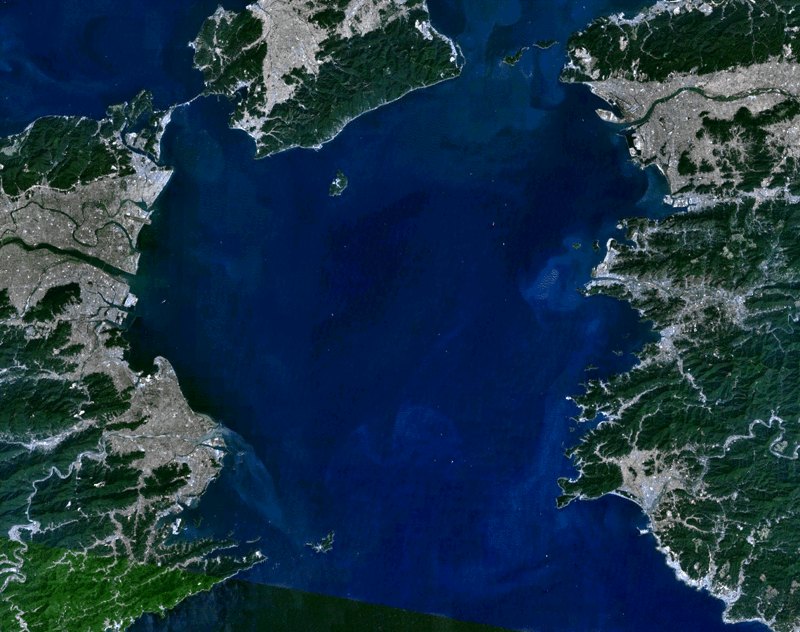 the view of Kii Channel in Japan, from Landsat, generated on NASA World Wind.